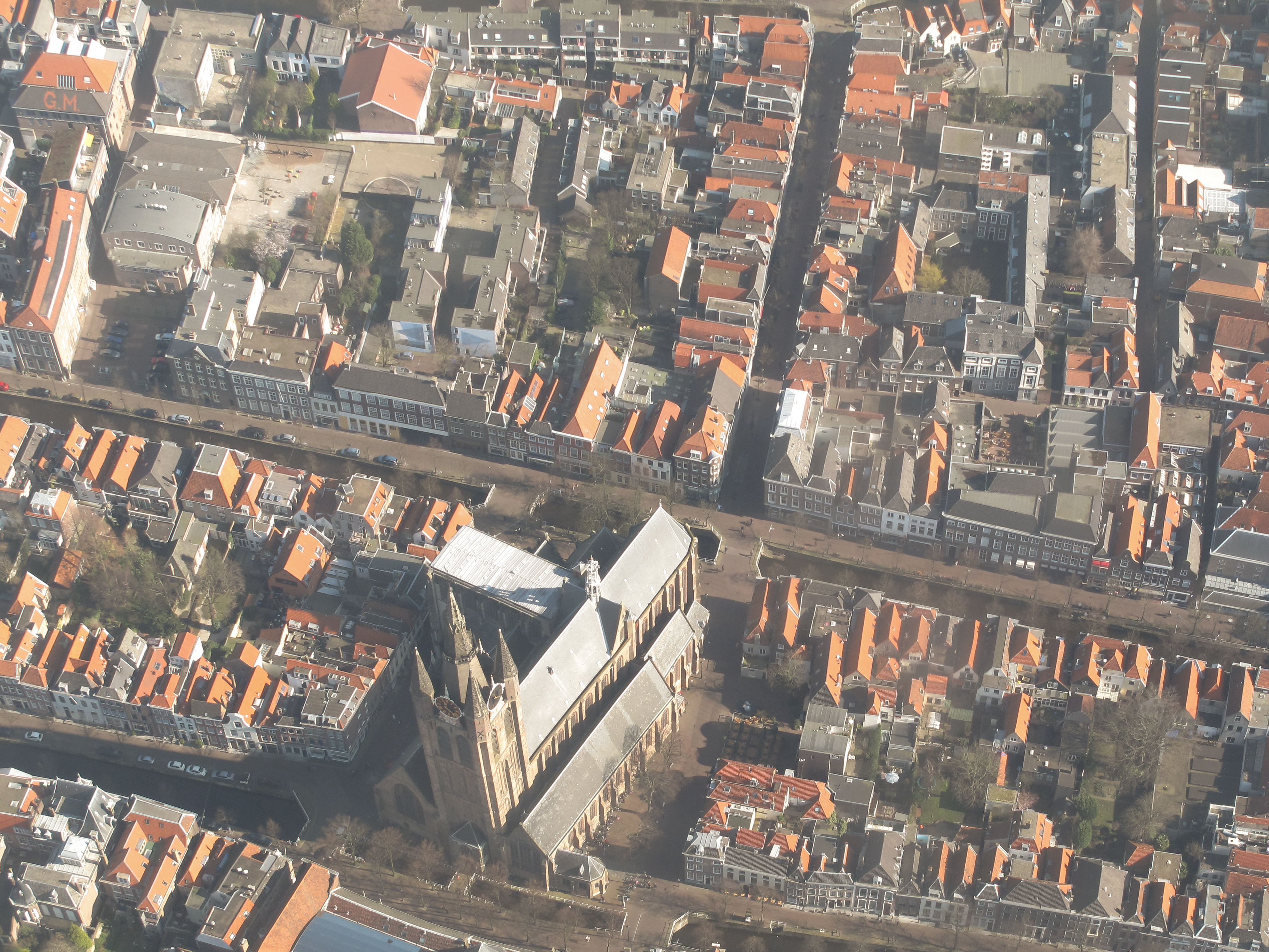 Delft, center